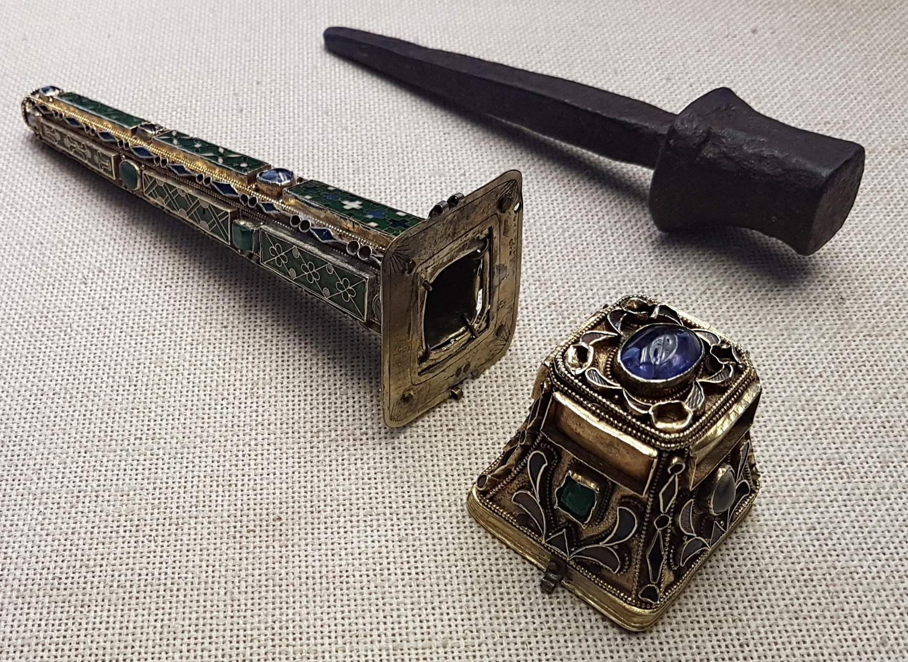 Reliquary of the Holy Nail (Reliquiar des heiligen Nagels) in the treasury of Trier Cathedral, Germany. The reliquary contains a nail of the Holy Cross. For centuries it was kept in the so-called portable altar of Saint Andrew (Andreas-Tragaltar or Egbert-Schrein). Both objects are major works of the 10th-century Egbert workshop in Trier.